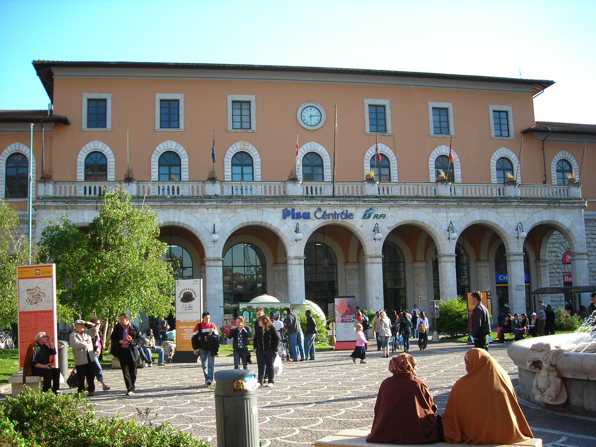 PIsa Centrale train station, Location: Pisa